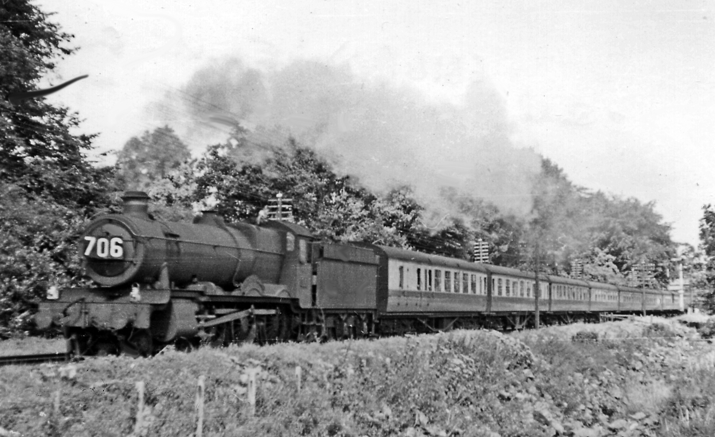 South Wales - West Country relief express climbing up Wellington Bank. View northward, towards Wellington, Taunton and Bristol/London etc.: ex-GWR West Country main line. The locomotive is Collett 4-6-0 No. 6816 'Frankton Grange' (built 12/36, withdrawn 7/65). (See other scenes at this location).